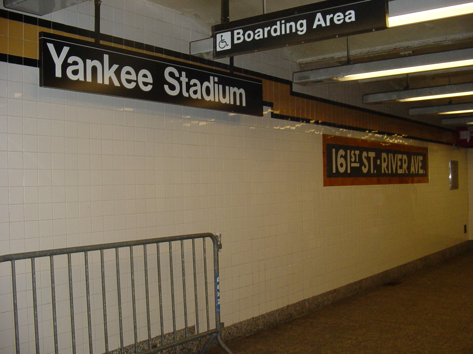 View of station identification signage from the en:161st Street – Yankee Stadium (IND Concourse Line) station northbound platform. On the right is the (restored) station name mosaic, on the left is a modern white-on-black sign indicating "Yankee Stadium."